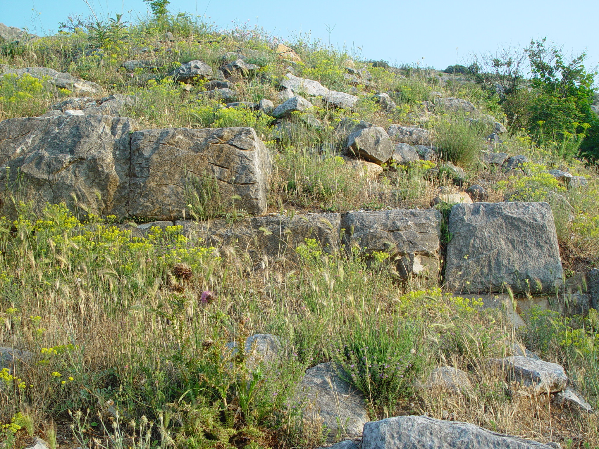 Philippi's North East curtain wall on the acropolis, above the theater.